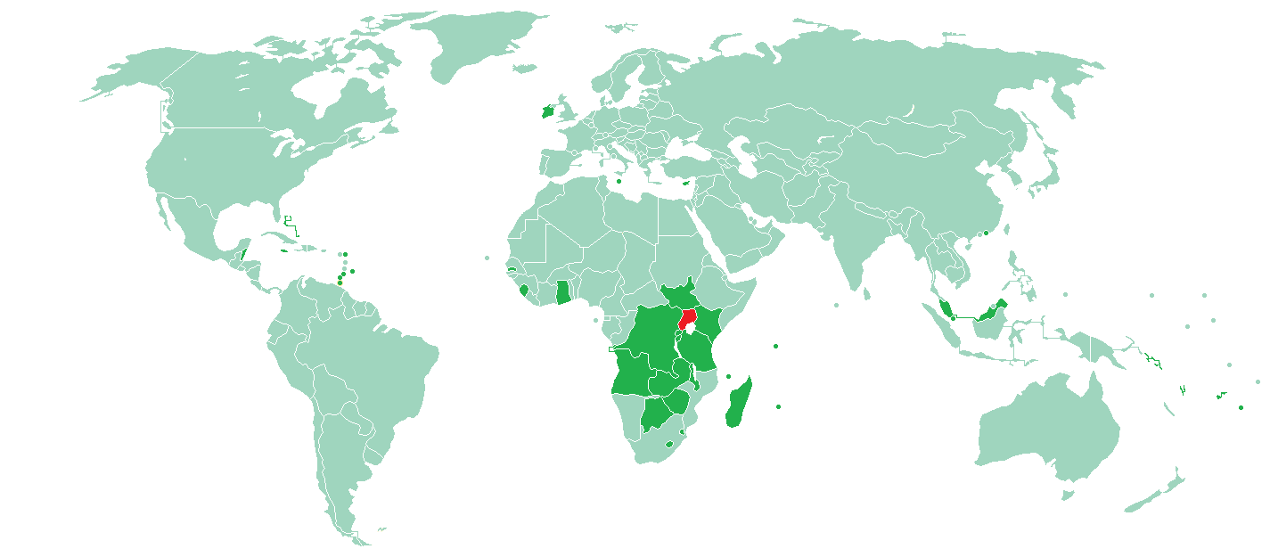 Visa policy of Uganda Uganda Visa-free eVisa/Visa on arrival